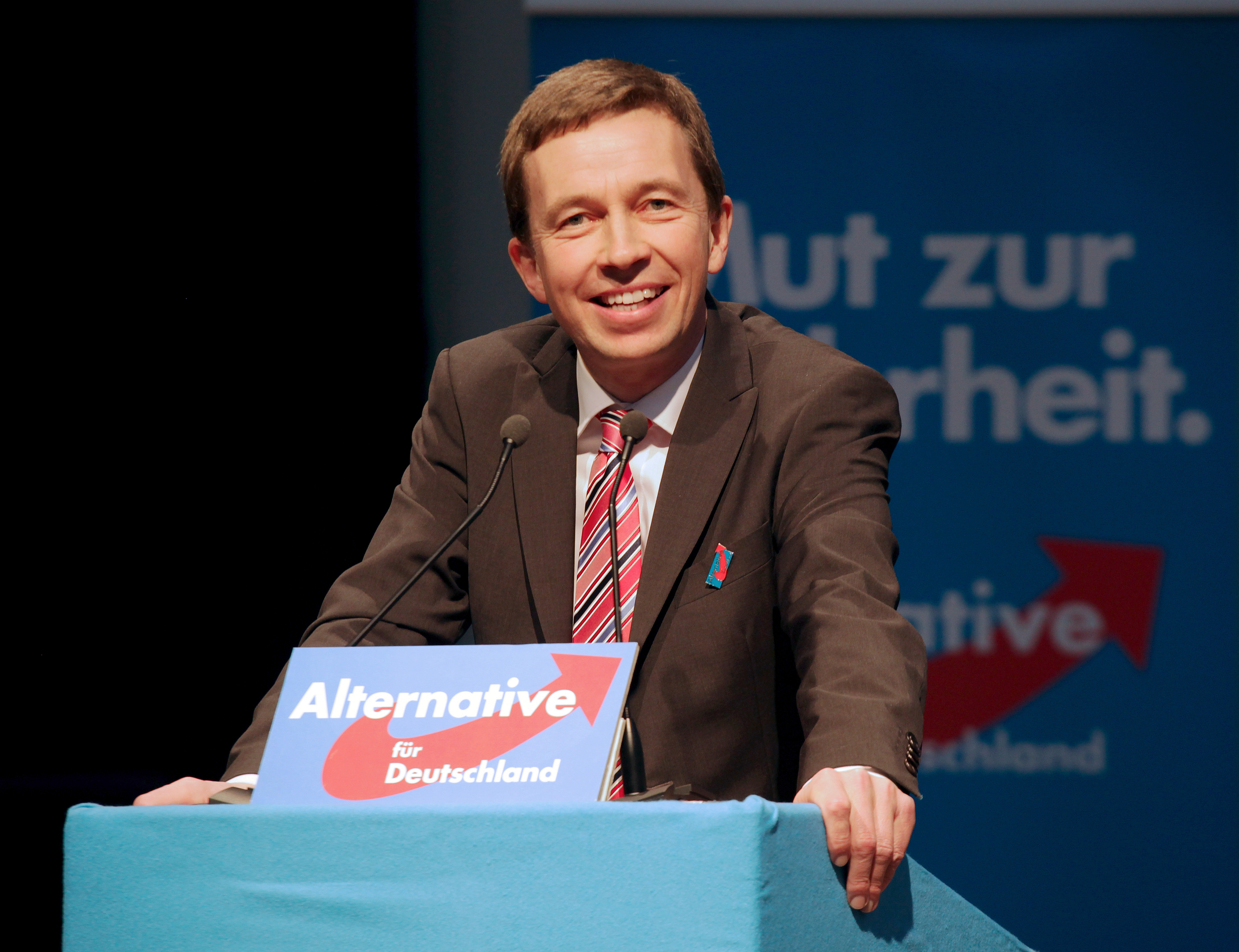 Bernd Lucke